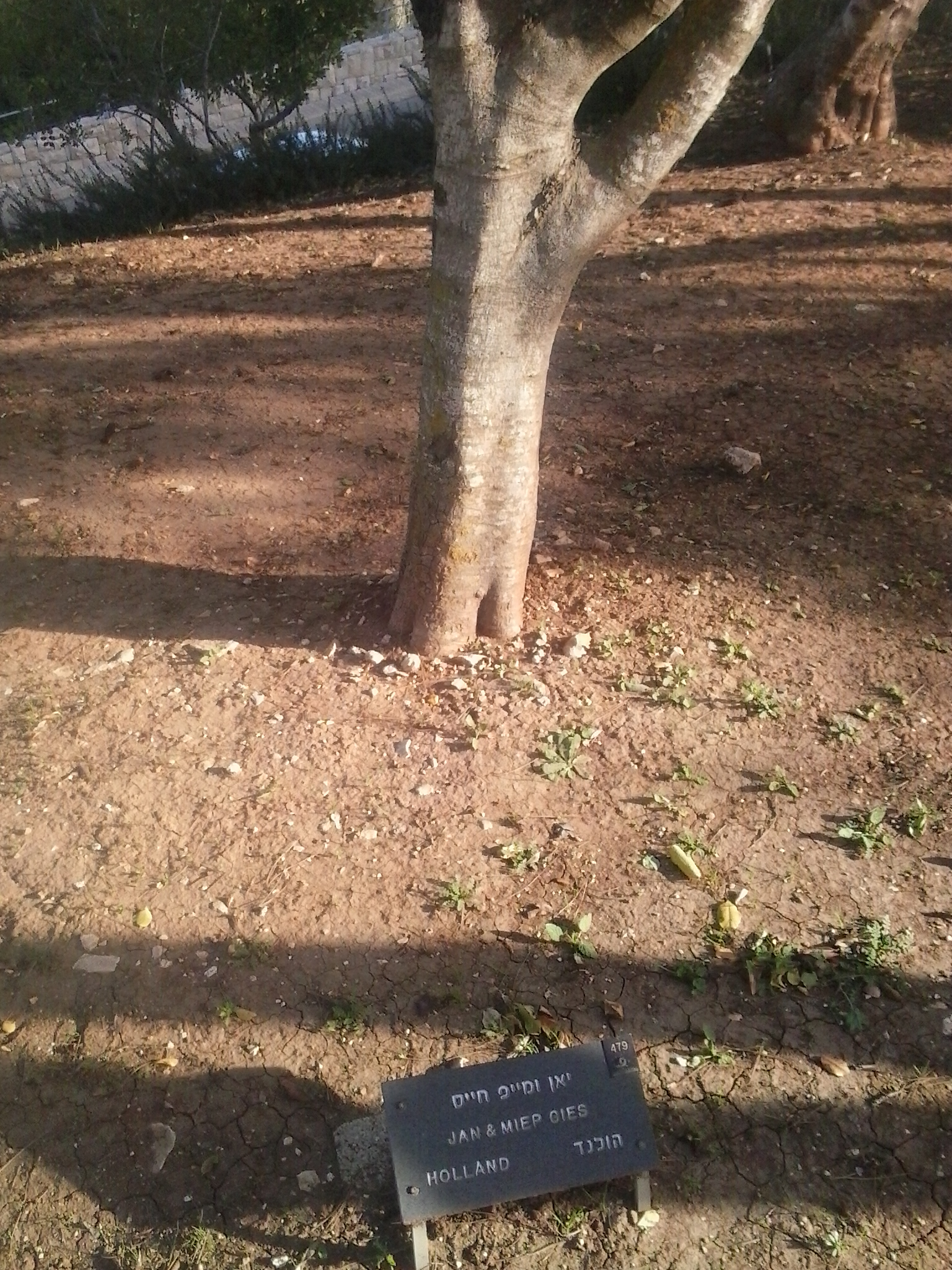 The Tree planted at Yad Vashem honoring the Righteous Among the Nations Jan and Miep Gies